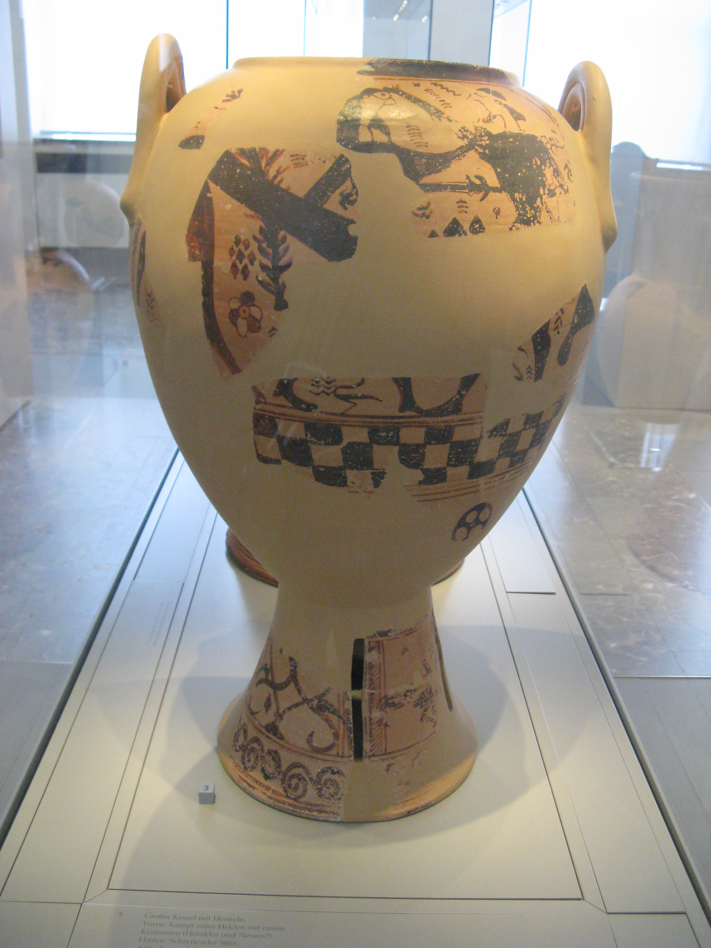 Protoattic bowl with handles depicting on site A the fight of a heros (Heracles?) with a centaur (Nessos?), site B a walking stallion; from Aegina; ca. 700-675 B.C.; purchased for the ANtikensammlung Berlin in 1936.